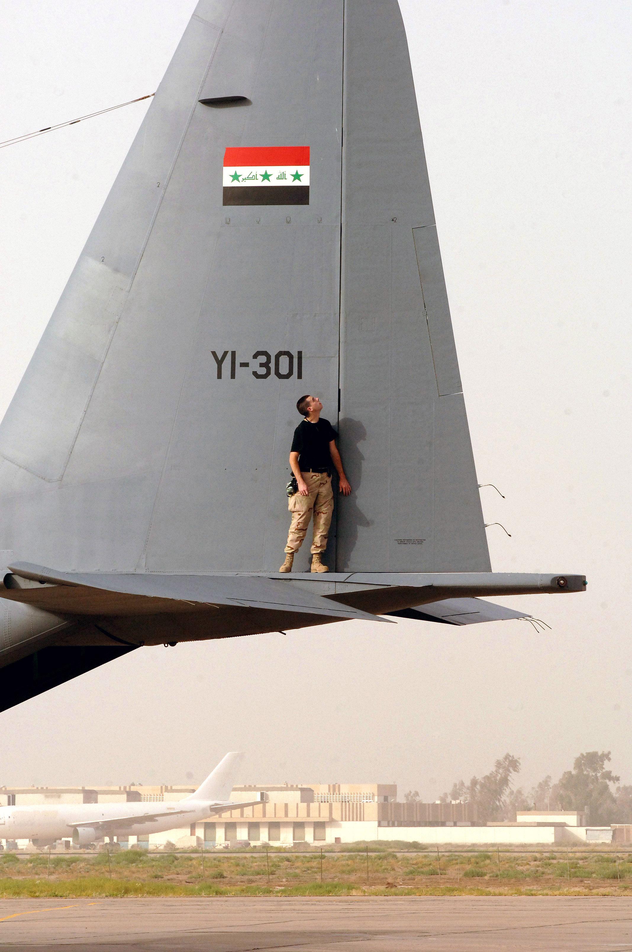 U.S. Air Force Senior Airman Jeff McCain performs a post-flight check on an Iraqi air force C-130 Hercules aircraft at New Al Muthana Air Base, Iraq, on July 11, 2006. McCain is assigned to the Coalition Air Force Transition Team working with Iraqis to rebuild their air force.